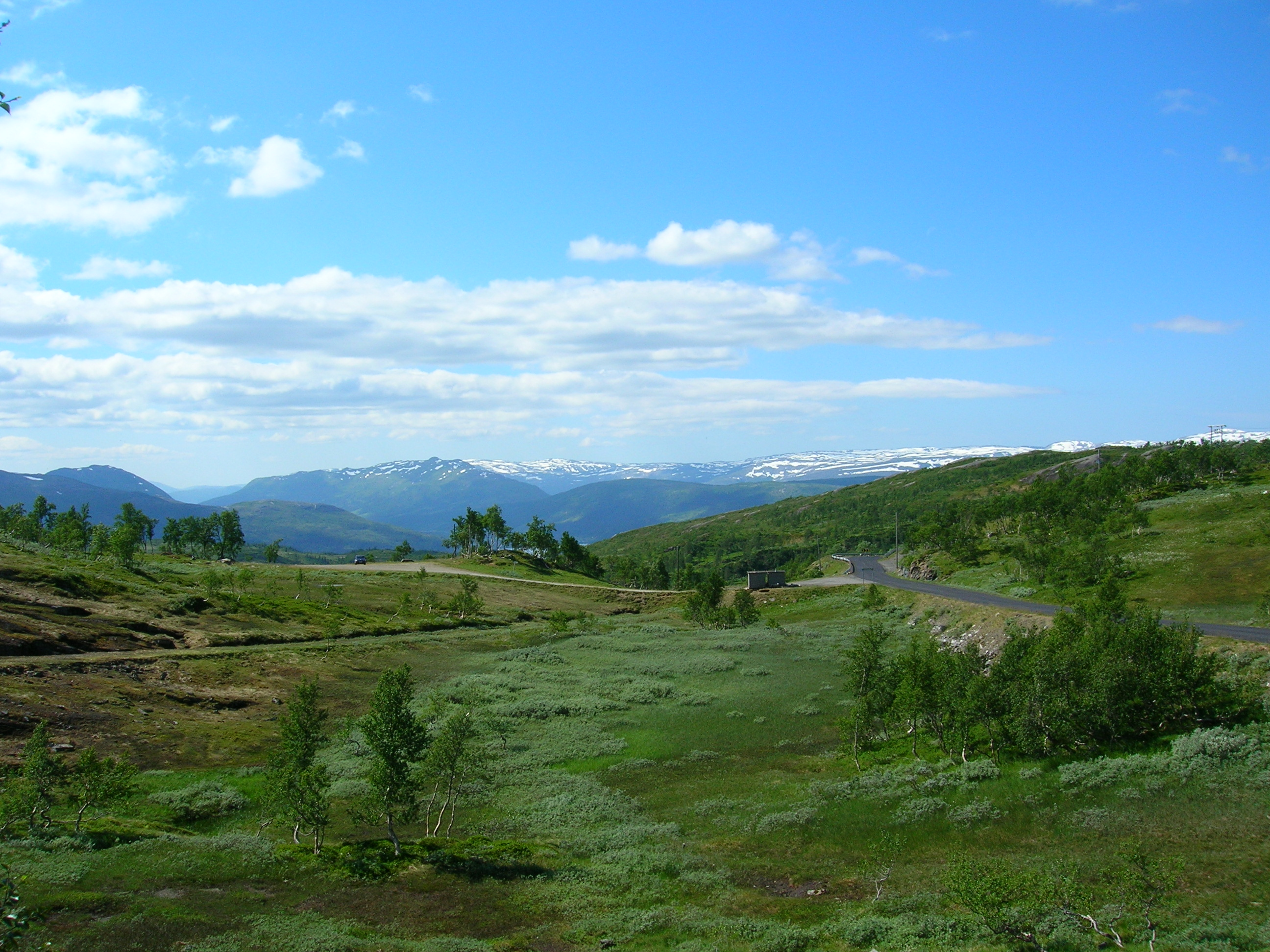 The beginning of the municipality of Vefsn, Nordland, Norway, seen southwards from Korgfjellet. Photo on Korgfjellet, Nordland county, Norway, on July 8, 2007 with a Nikon Coolpix 5600 5,1 Megapixel camera.